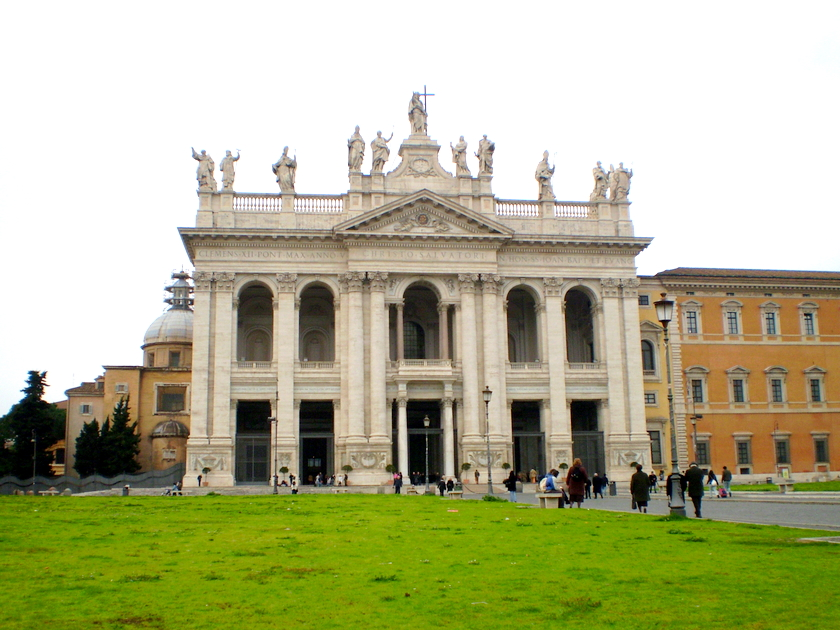 Basilica of St. John Lateran